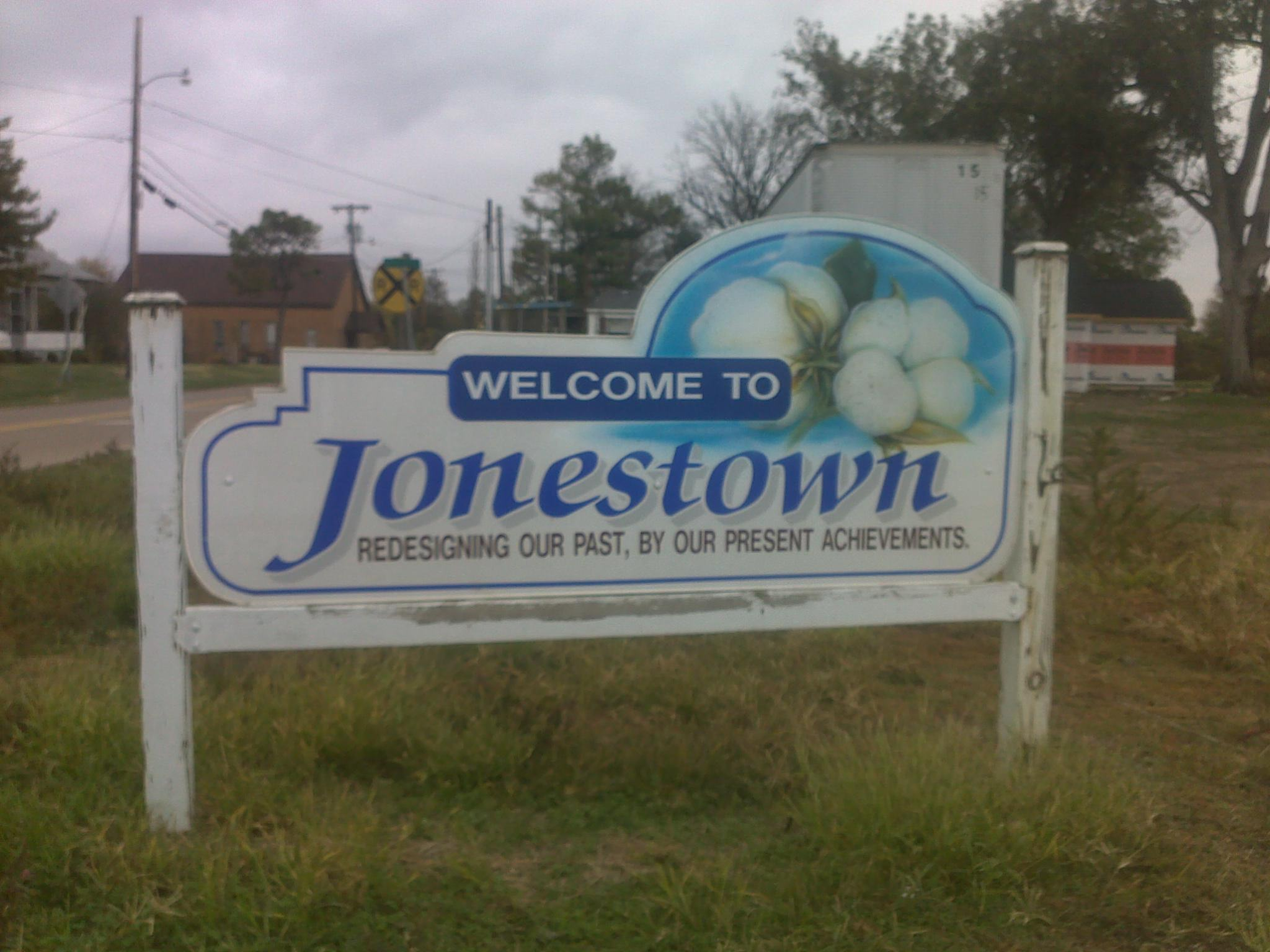 Jonestown Mississippi Welcome Sign